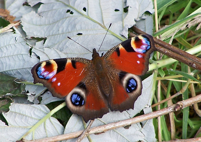 Peacock butterfly Several large specimens of these beautiful butterflies were feeding along the footpath close to the A87 just north of Broadford.